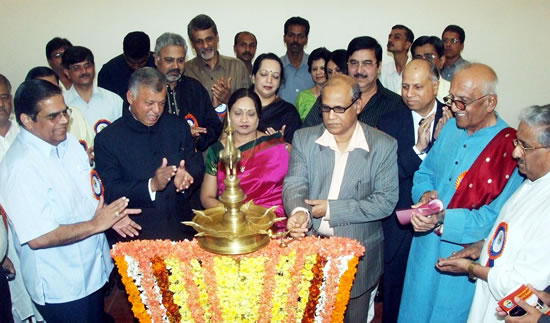 World Konkani Centre, Mangalore inauguration by Shri Digambar Kamat, Hon'ble CM of Goa